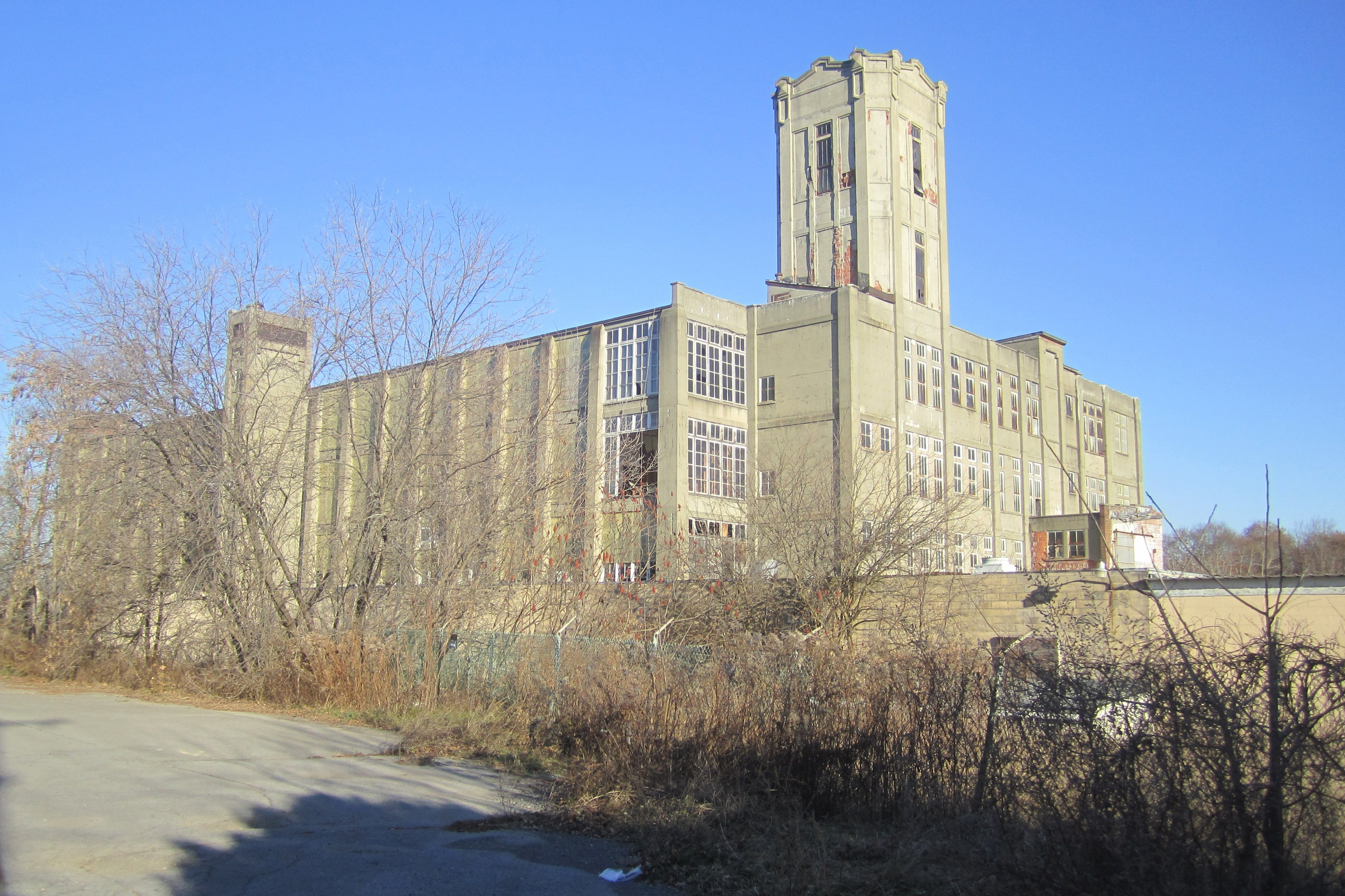 "Victory Mills", the former American Manufacturing Company textile mill in Victory, Saratoga County NY. Built in 1918 it is now listed on the National Register of Historic Places.